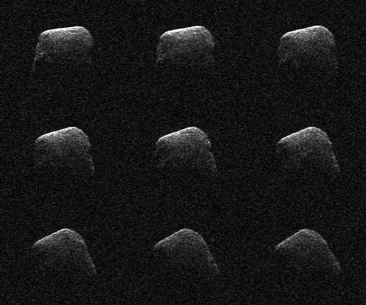 These radar images of comet P/2016 BA14 were taken on March 22, 2016, by scientists using an antenna of NASA's Deep Space Network at Goldstone, California. At the time, the comet was about 2.2 million miles (3.6 million kilometers) from Earth. Radar images and data from the flyby indicated that the comet is about 3,000 feet (1 kilometer) in diameter.